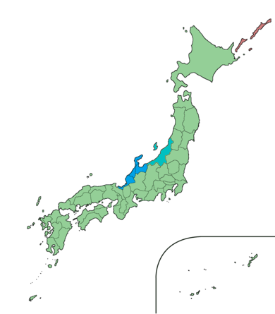 Hokuriku subregion with Niigata (right) colored light green